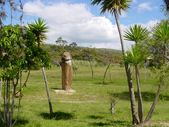 Remains of a Muisca temple, nowadays called El Infiernito, nearby Villa de Leyva, Colombia